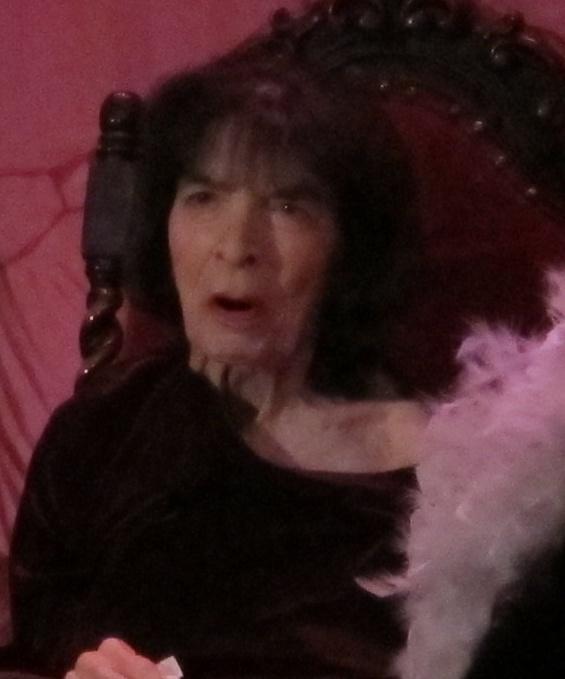 Marta Becket, 87, performed her final show at the Amargosa Opera House at Death Valley Junction on February 12th, 2012. She happened upon the abandoned headquarters for the Pacific Coast Borax Works in 1967 and, as a professional dancer, adopted the community hall and has been residing on the property and giving performances since. A real Death Valley original.